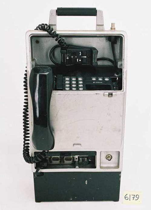 The Ericsson Roadcom C600P mobile phone. Image from Norwegian Telemuseum, I have confirmed permission from the museum to use this under this license.